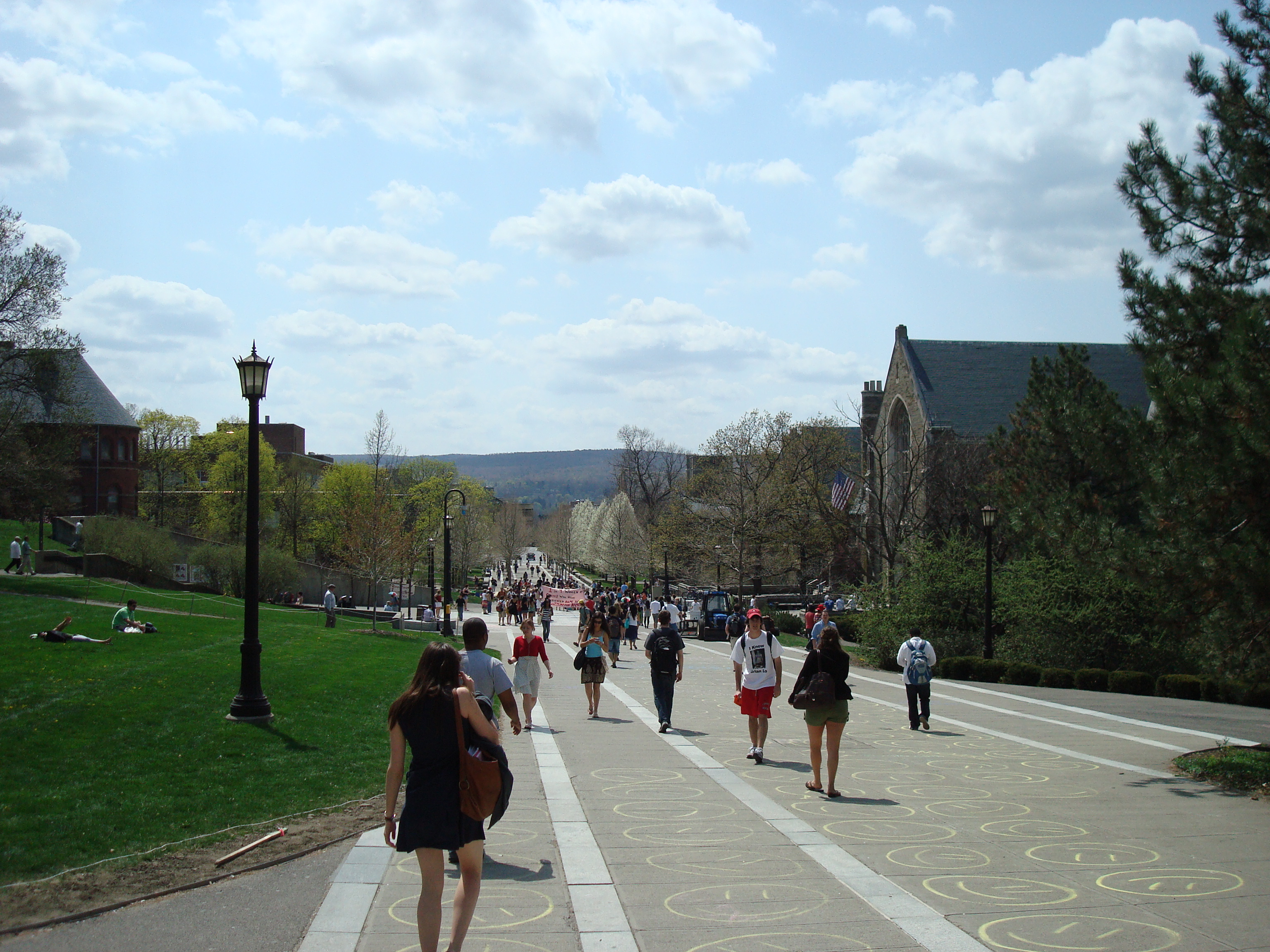 Ho Plaza on the campus of Cornell University. The building on the right is Willard Straight Hall.